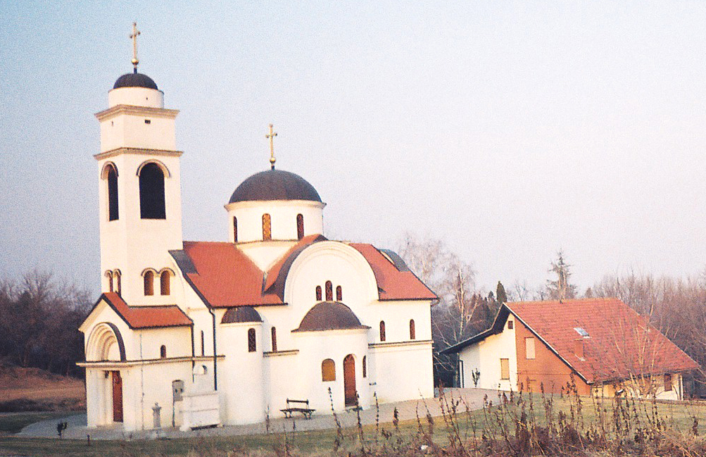 Orthodox church in the village Ledinci near Novi Sad